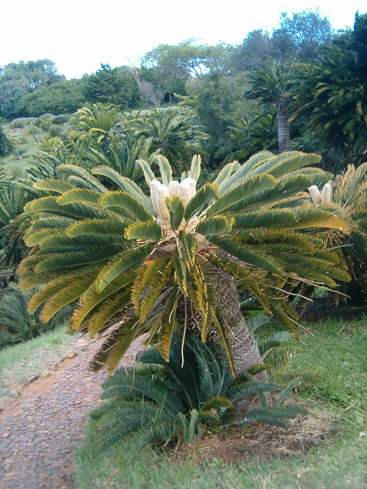 At Kirstenbosch National Botanical Gardens Genus: Encephalartos